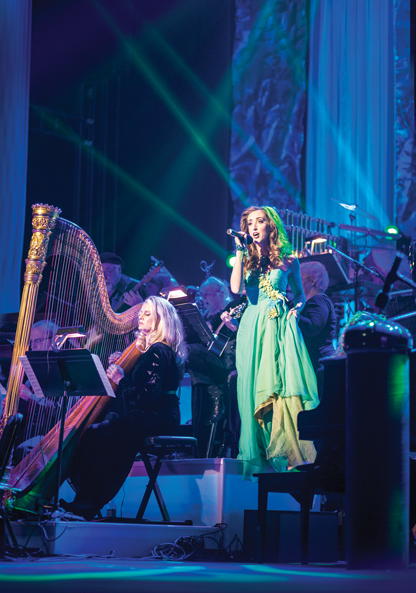 Charlee Brooks, live, Los Angeles